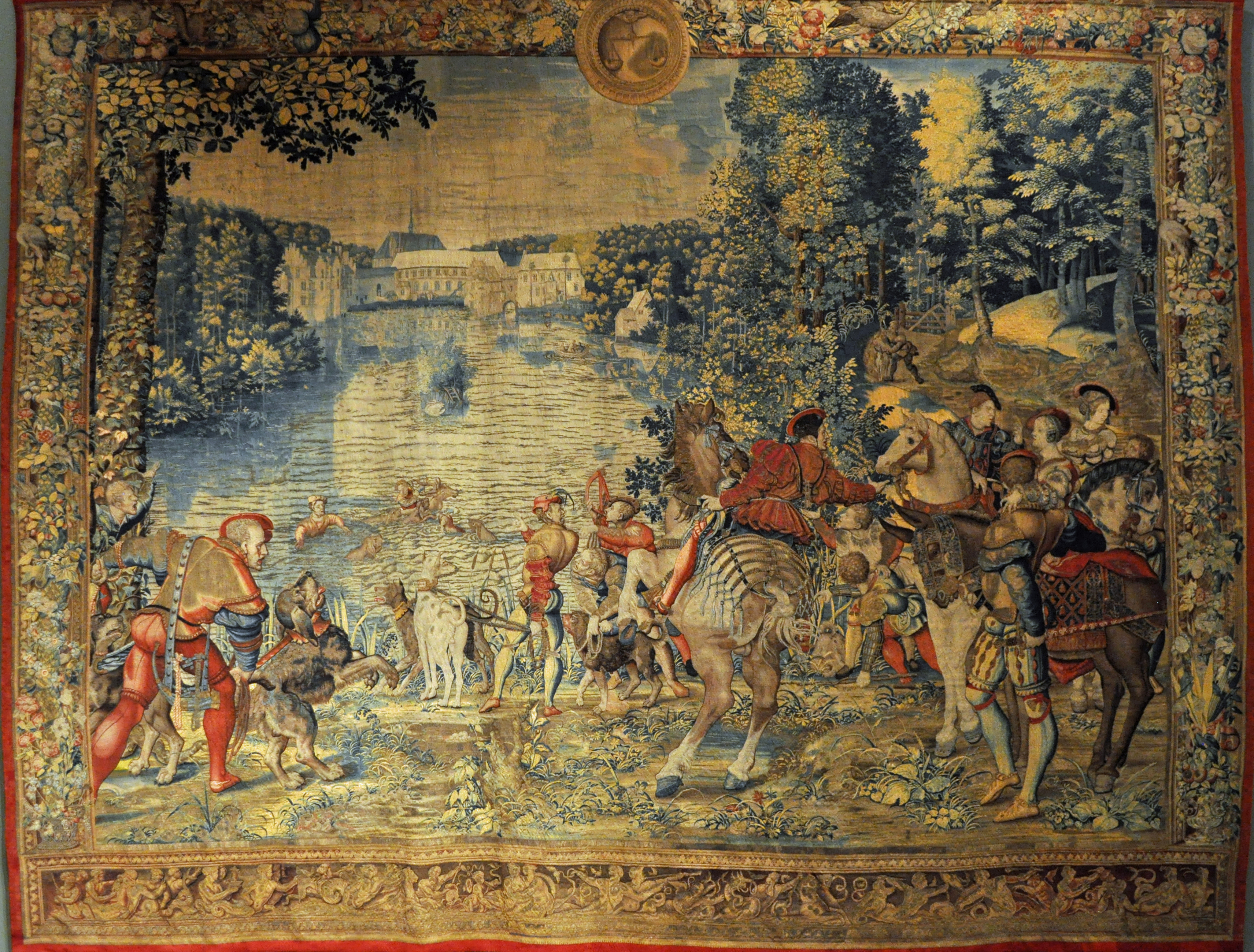 The Month of September, from The Hunt of Maximilian series